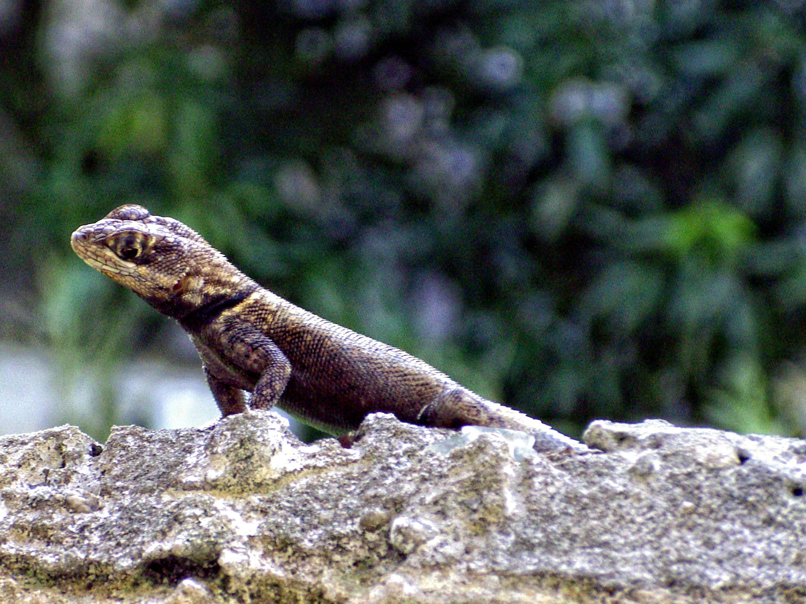 In the photo, a Tropidurus oreadicus on a wall in Belém, Brazil.